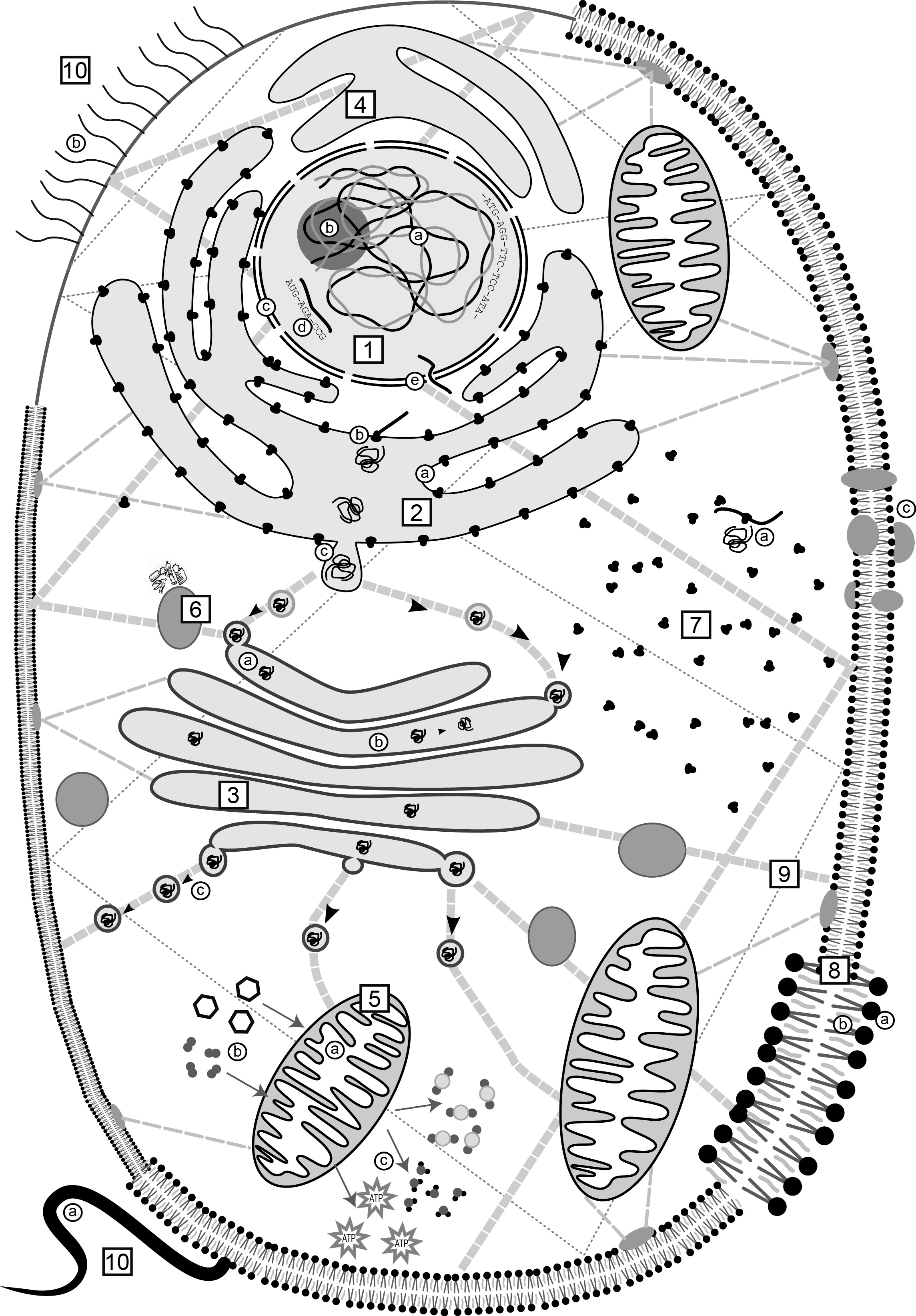 Animal cell drawing